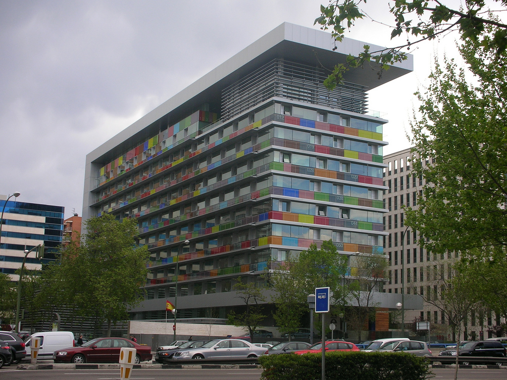 Spanish National Statistics Institute headquarters, at 183 Paseo de la Castellana (avenue) in Madrid.